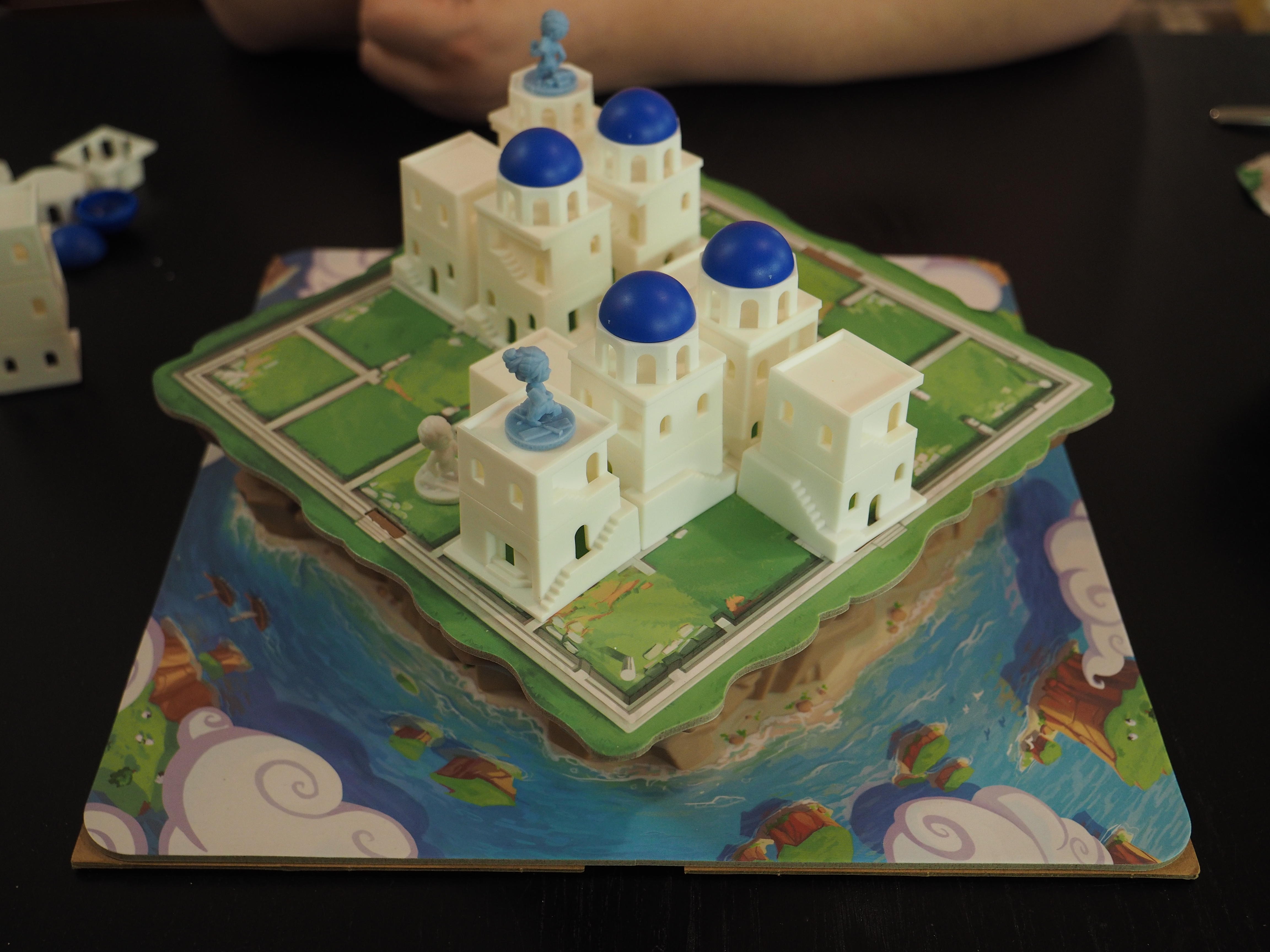 A two-player game of Santorini at the end of play.